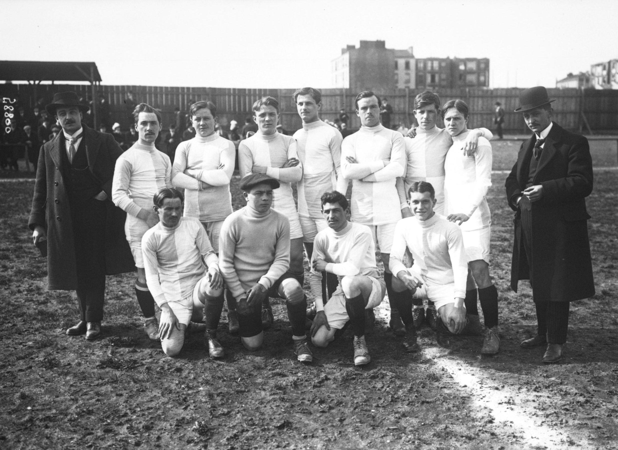 Press photography of Luxmbourg football team, before a match in Saint-Ouen (next Paris), in 1913. Originally owned by Rol Agency, which gave it for free use to Gallica (Bibliothèque nationale de France).